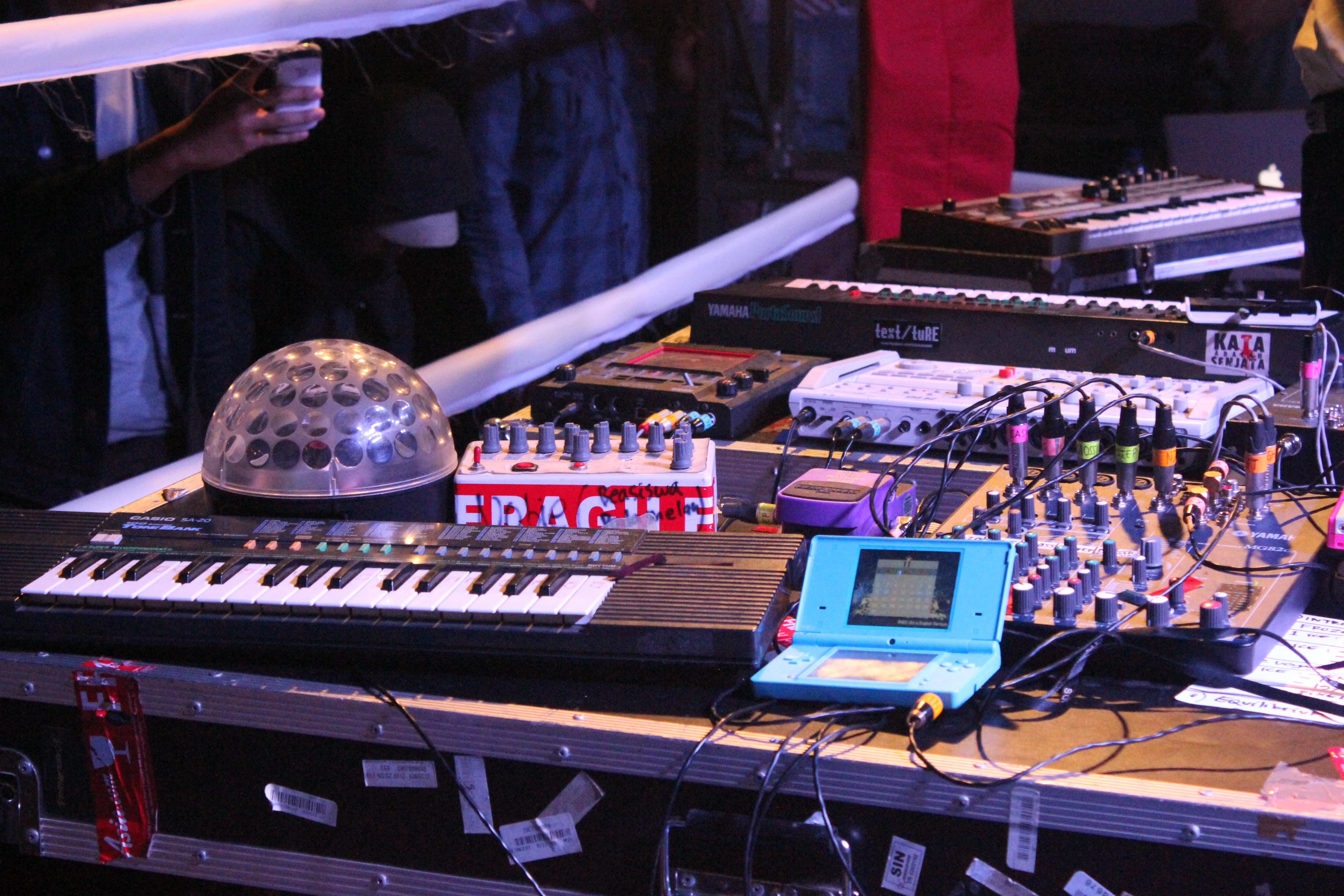 Casio ToneBank SA-20 and Nintendo DSi seen on Bottlesmoker's performance.